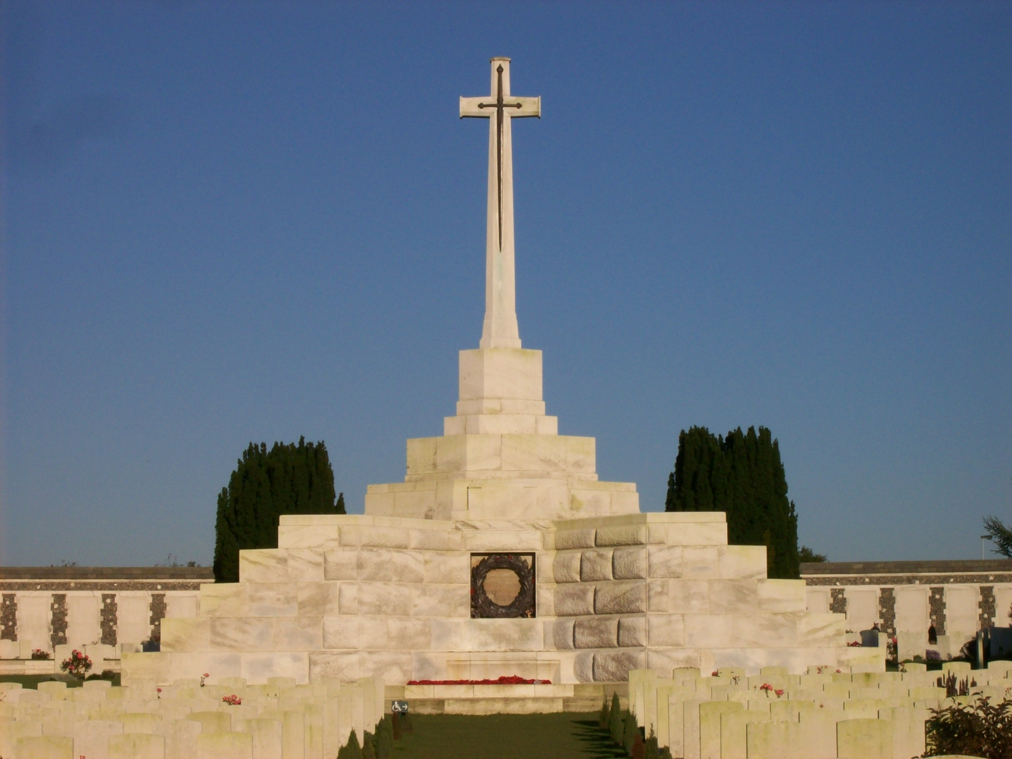 Memorial cross, Tyne Cot Cemetery